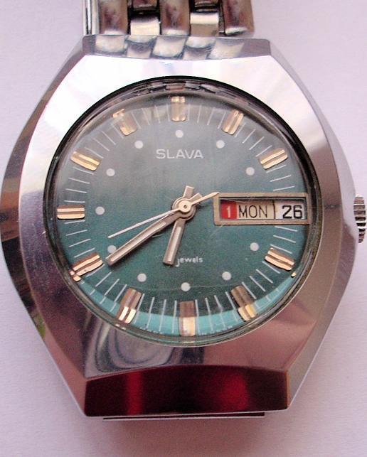 Slava watch